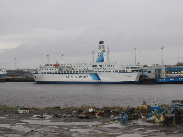 Ferry at Royal Quays Car ferry, Duke of Scandinavia, at Newcastle's Royal Quays.